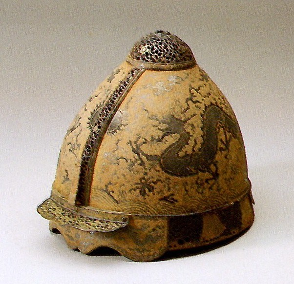 The helmet of a Mongolian army